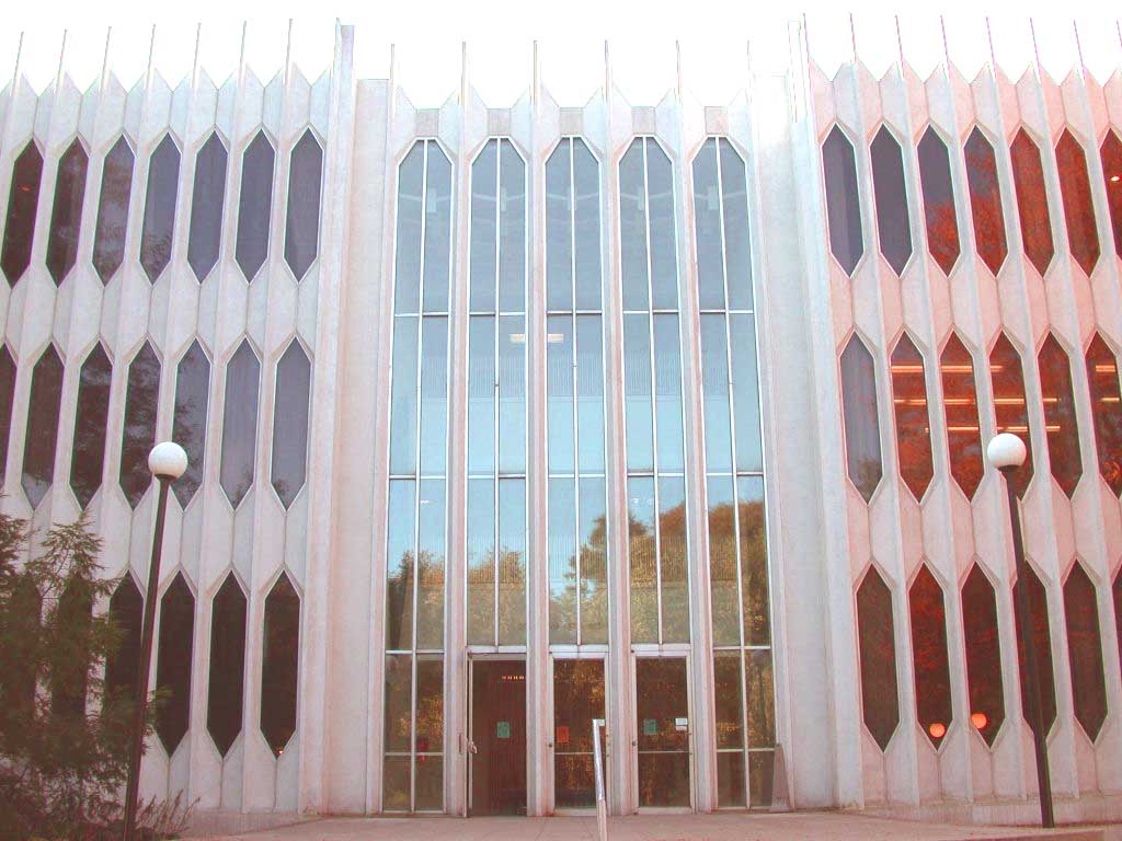 Oberlin Conservatory in Oberlin, Ohio, designed by Minoru Yamasaki in 1963.